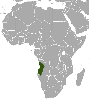 Angolan Epauletted Fruit Bat (Epomophorus angolensis) range